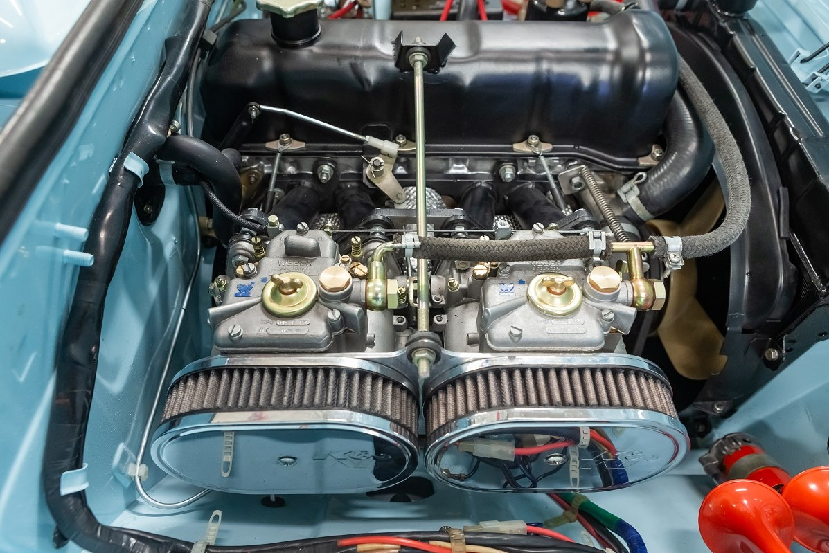 Lada VAZ 2101. ADAC Rallye Tour d'Europe 1971. Replica